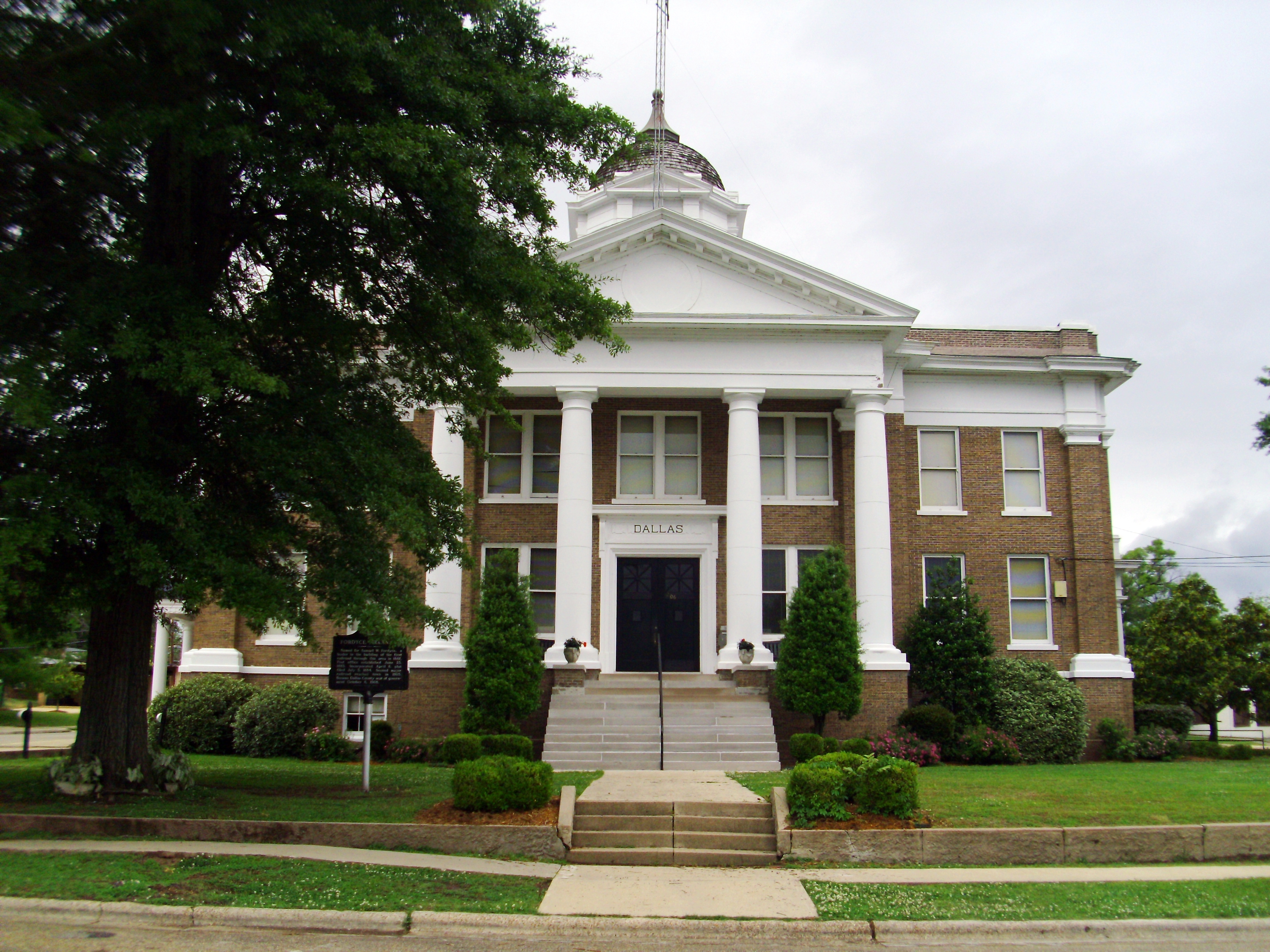 Facade